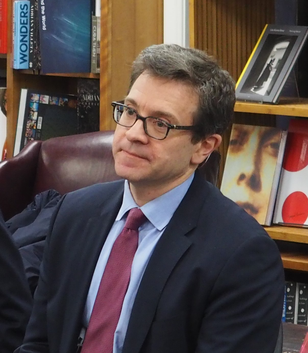 reading at Politics and Prose, Washington, D.C.